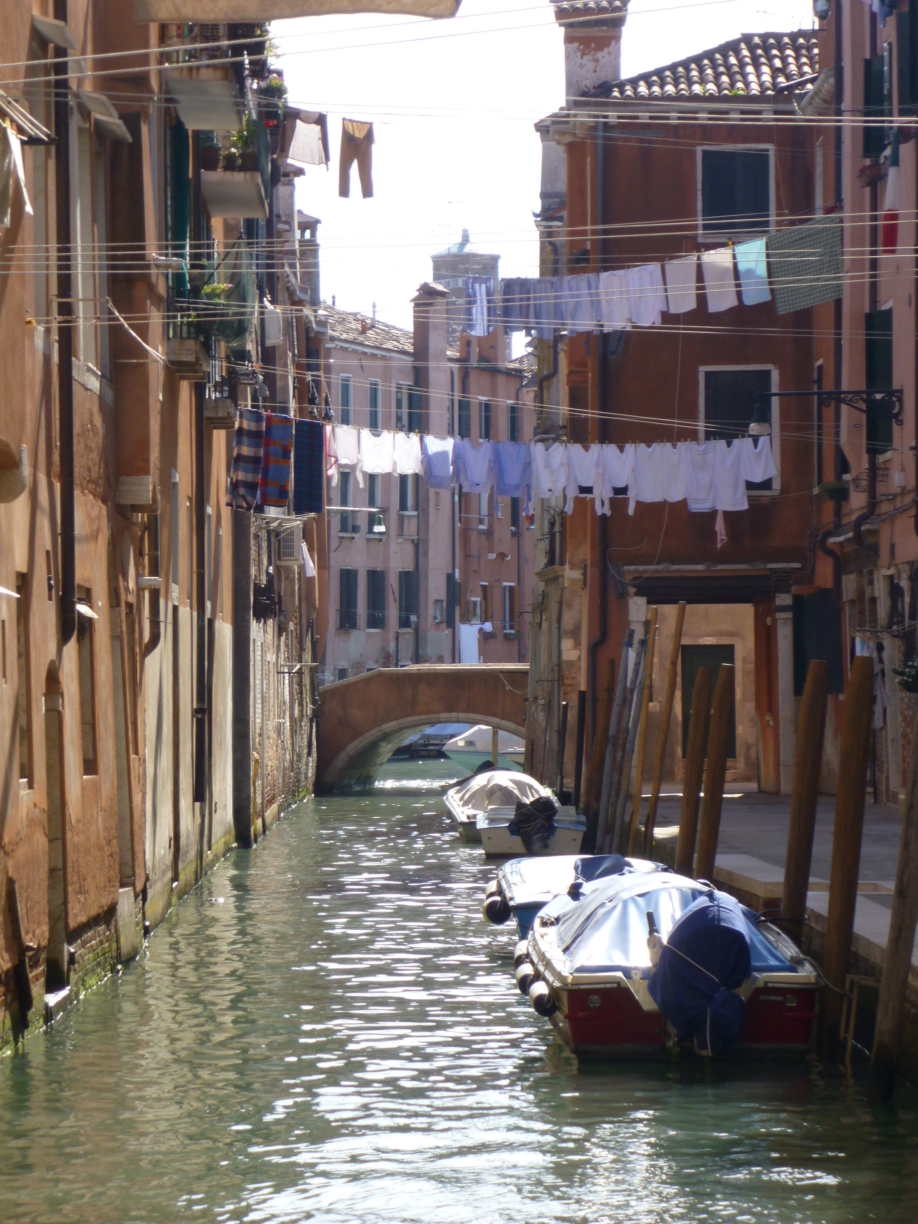 PONTE DE LE TORETE, Rio de le Torete, Canaregio, Venezia